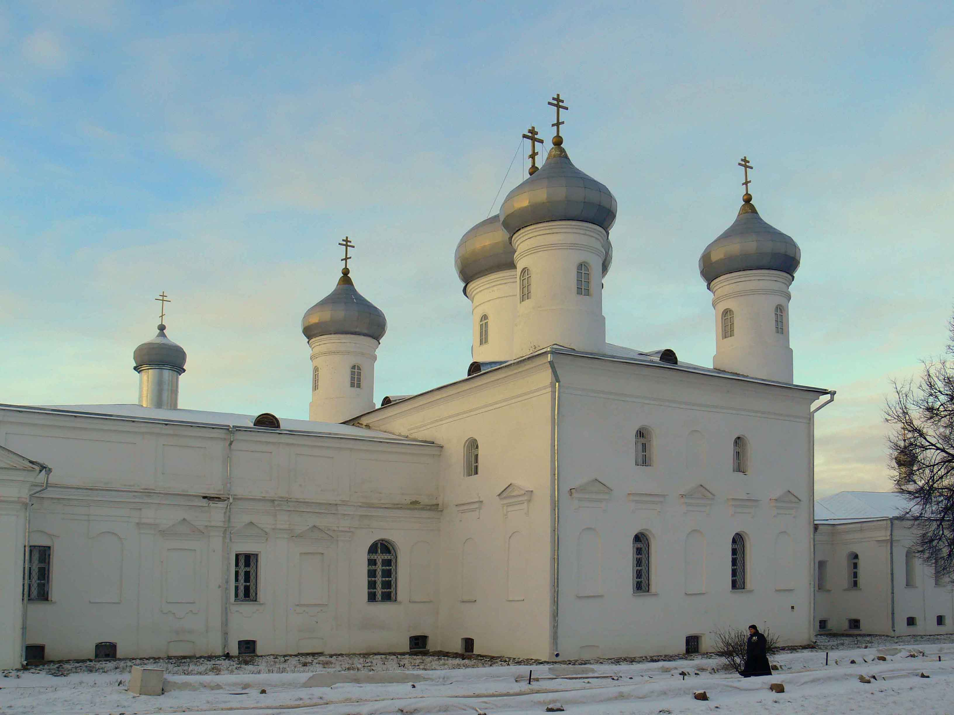 Spassky cathedral in Yurievo monastery near Veliky Novgorod